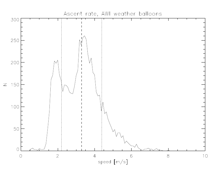 Histogram of ascent rates of weather balloons launched from the Polarstern research vessel. Reference: Peter Mills (2004) "Following the Vapour Trail: a Study of Chaotic Mixing of Water Vapour in the Upper Troposphere." Master's Thesis, University of Bremen.